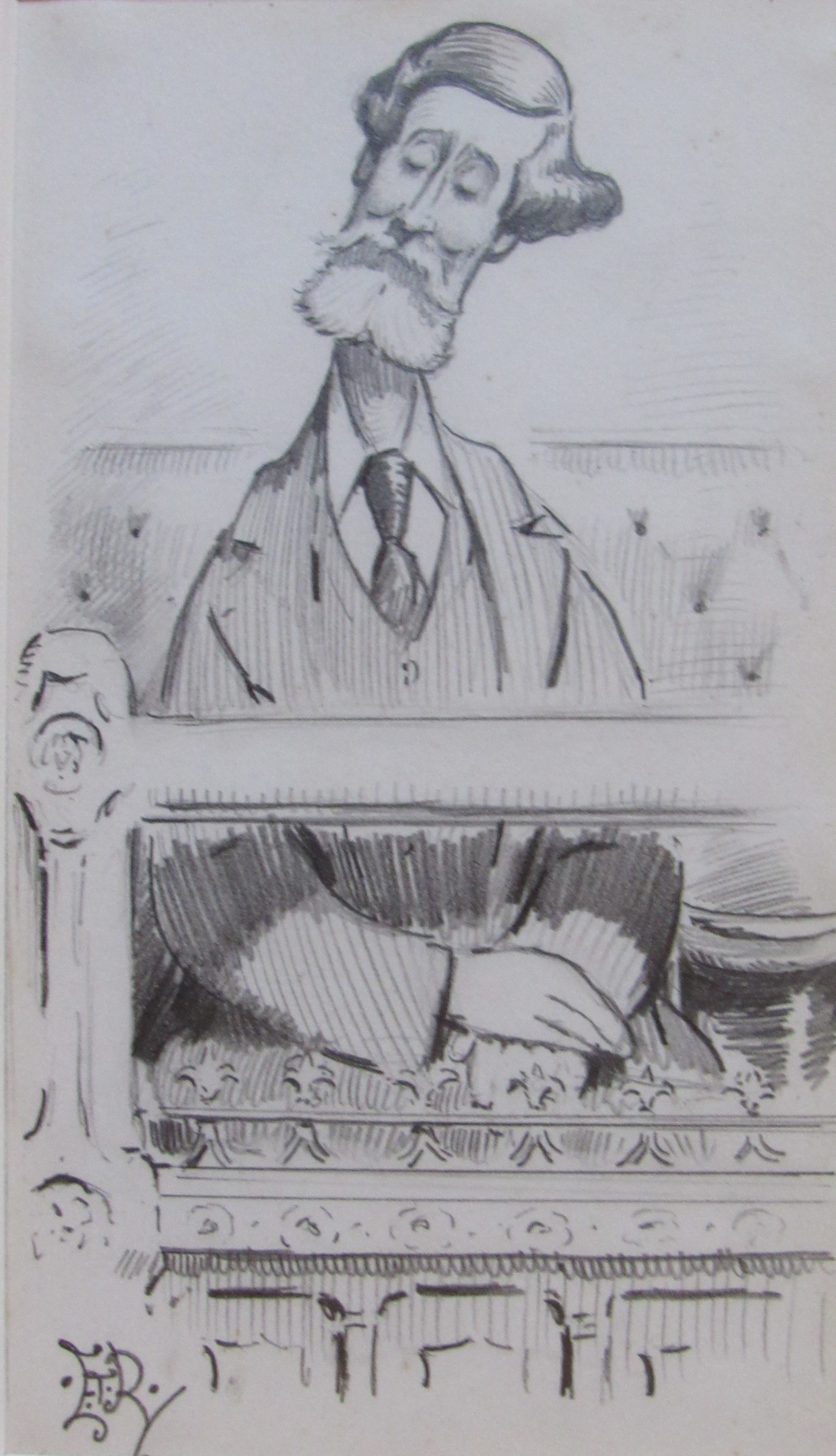 Punch Cartoon 6/5/1903 - Lord Penrhyn (A Study in Bloodthirsty and Ferocious Tyrany) by E.T.Reed